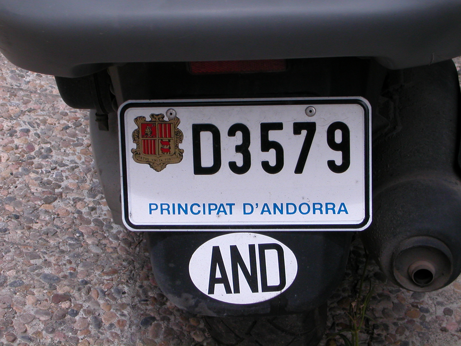 Andorrean license plate for motorcycles